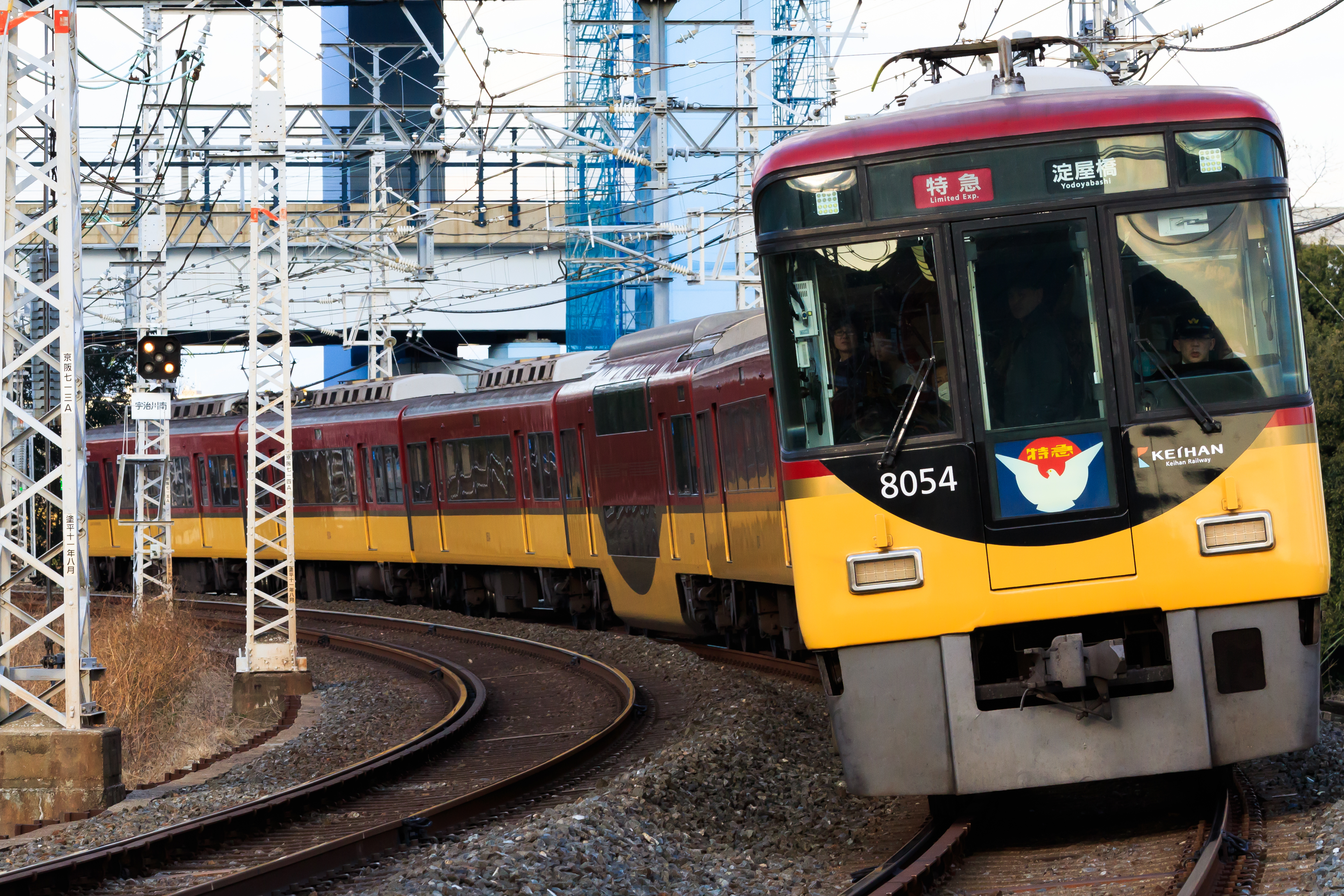 京阪8000系。2017年元日撮影。 Canon EOS 7D Mark II